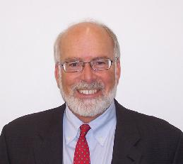 Charles Douglas III, former Congressman for New Hampshire